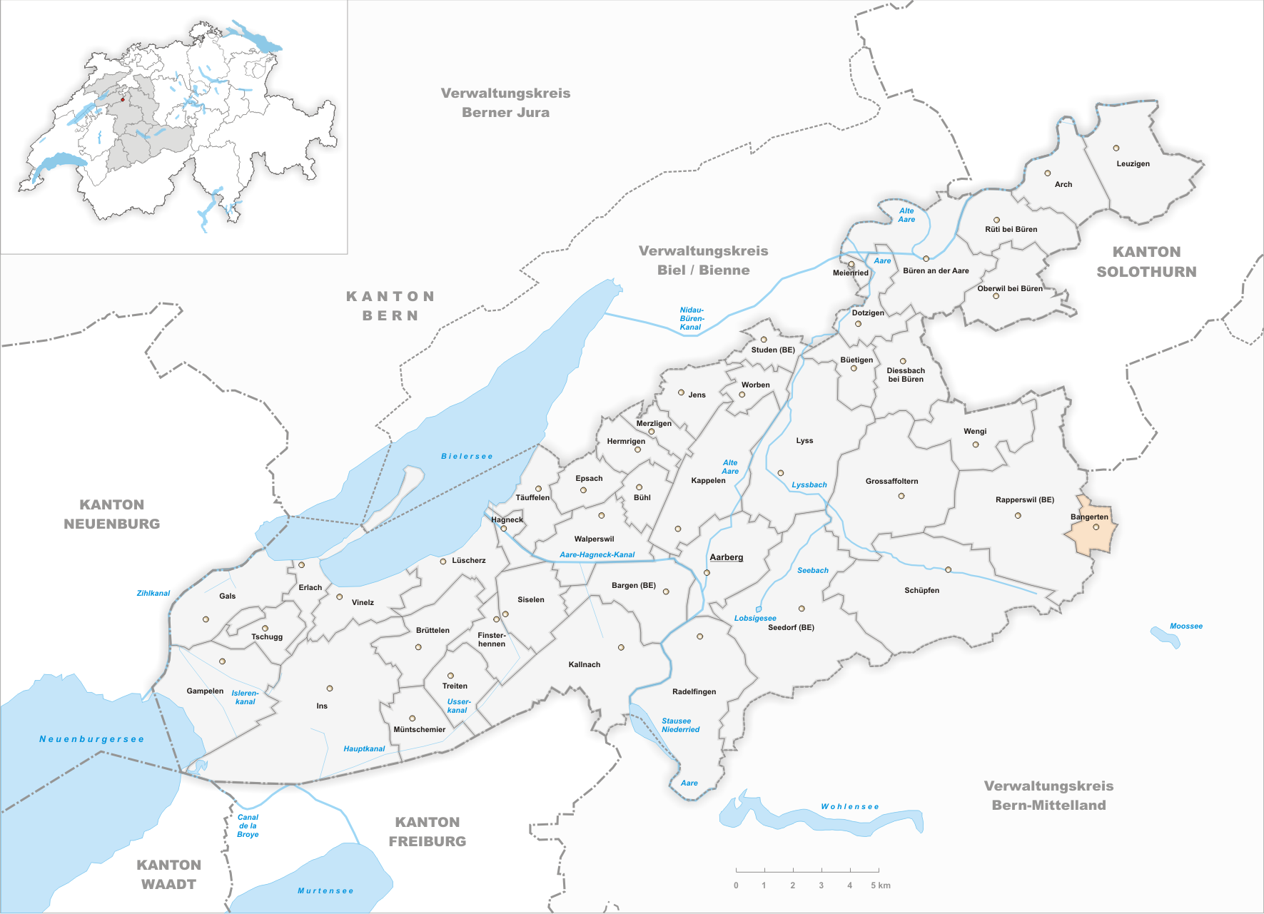 Municipality Bangerten